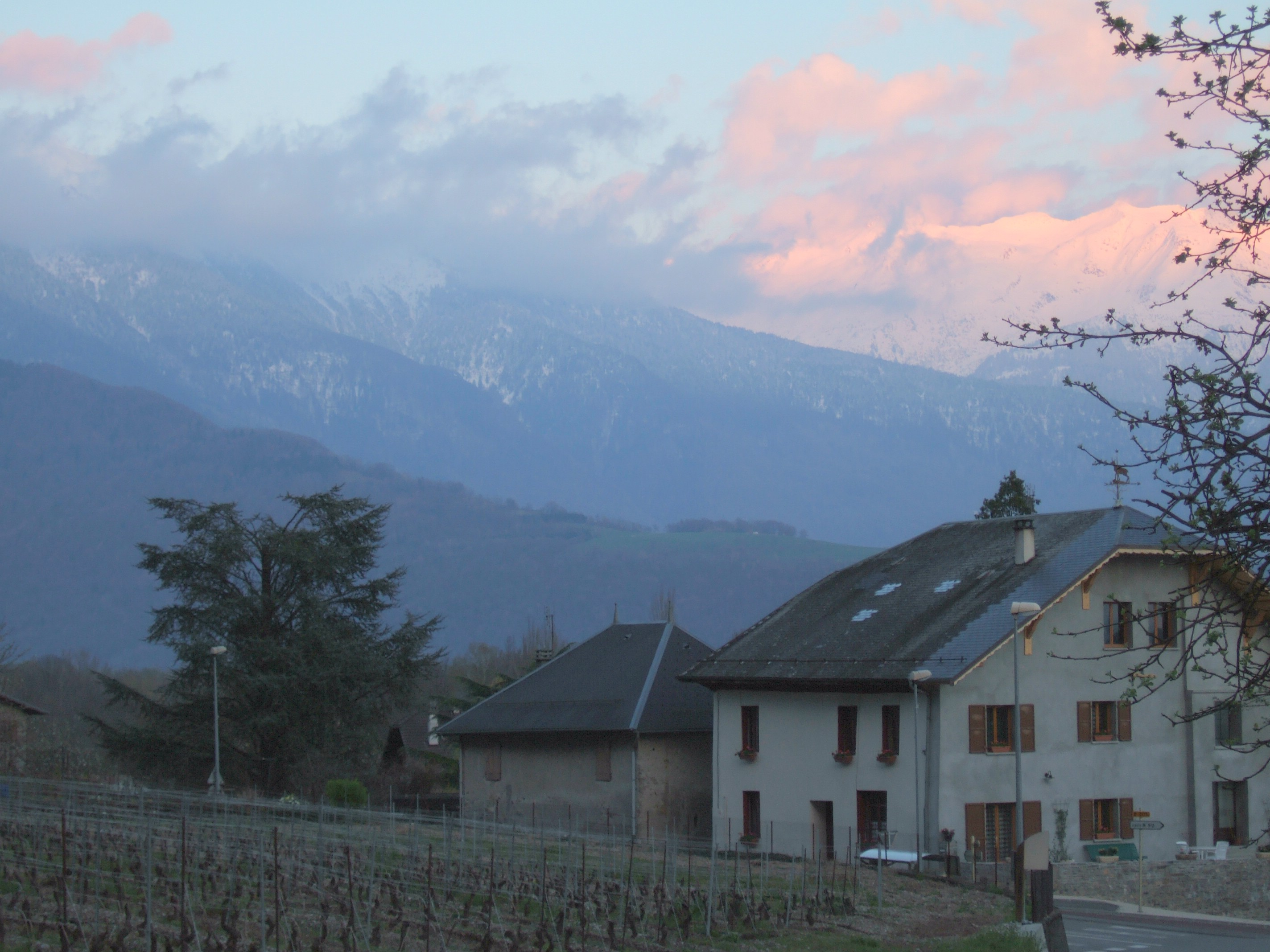 Vineyard in the French wine region of Savoy/Savoie.